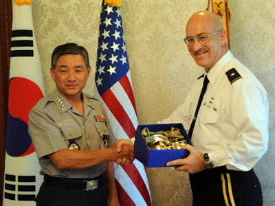 Republic of Korea Army Chief of Staff Gen. Lim Choung-bin welcomes Brig. Gen. Edward Donnelly, deputy director, Strategy, Plans and Policy, U.S. Army G-3/5, to the first ever ROK-U.S. Army-to-Army staff talks.